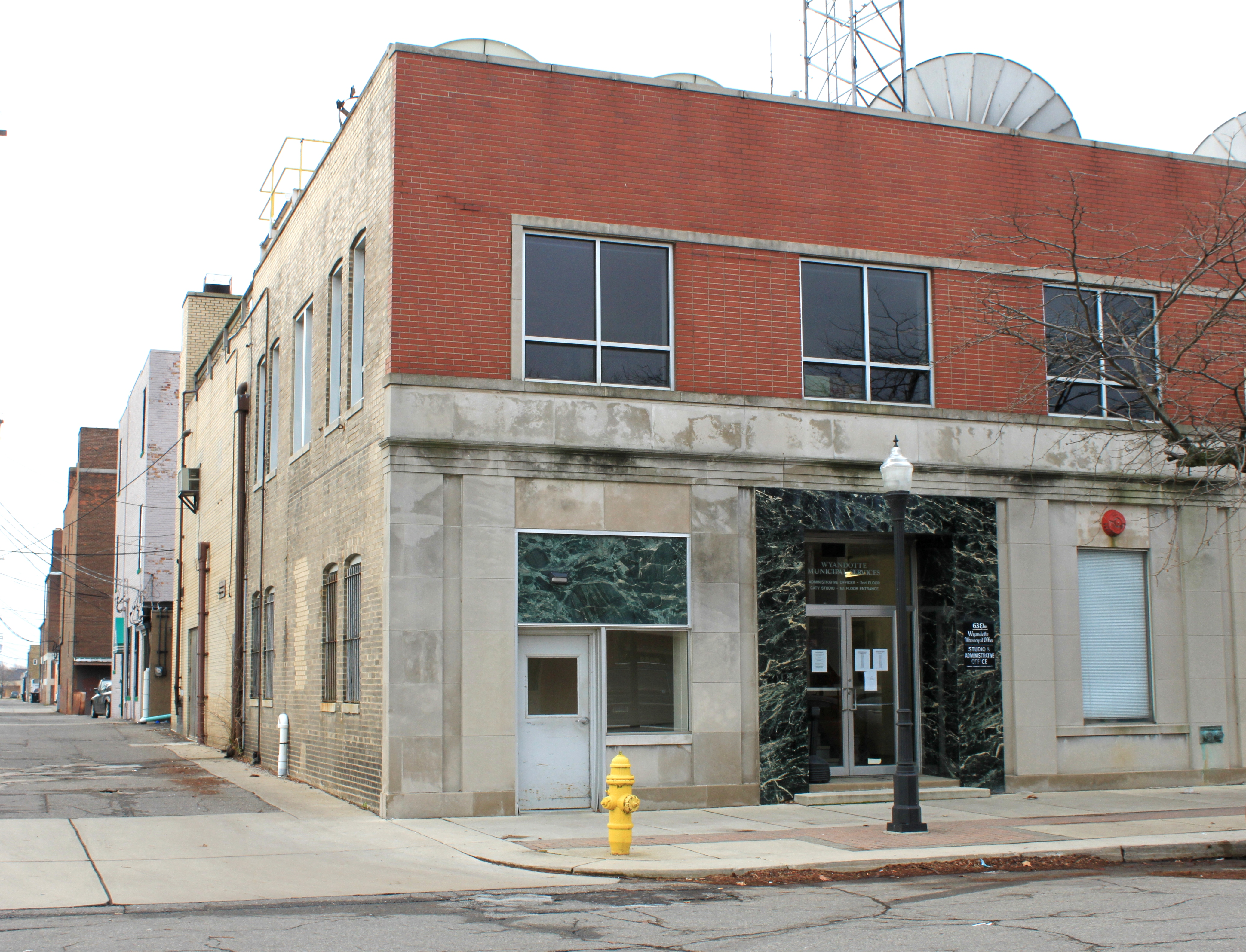 Wyandotte Municipal Services administrative offices and studio, 63 Elm Street, Wyandotte, Michigan.